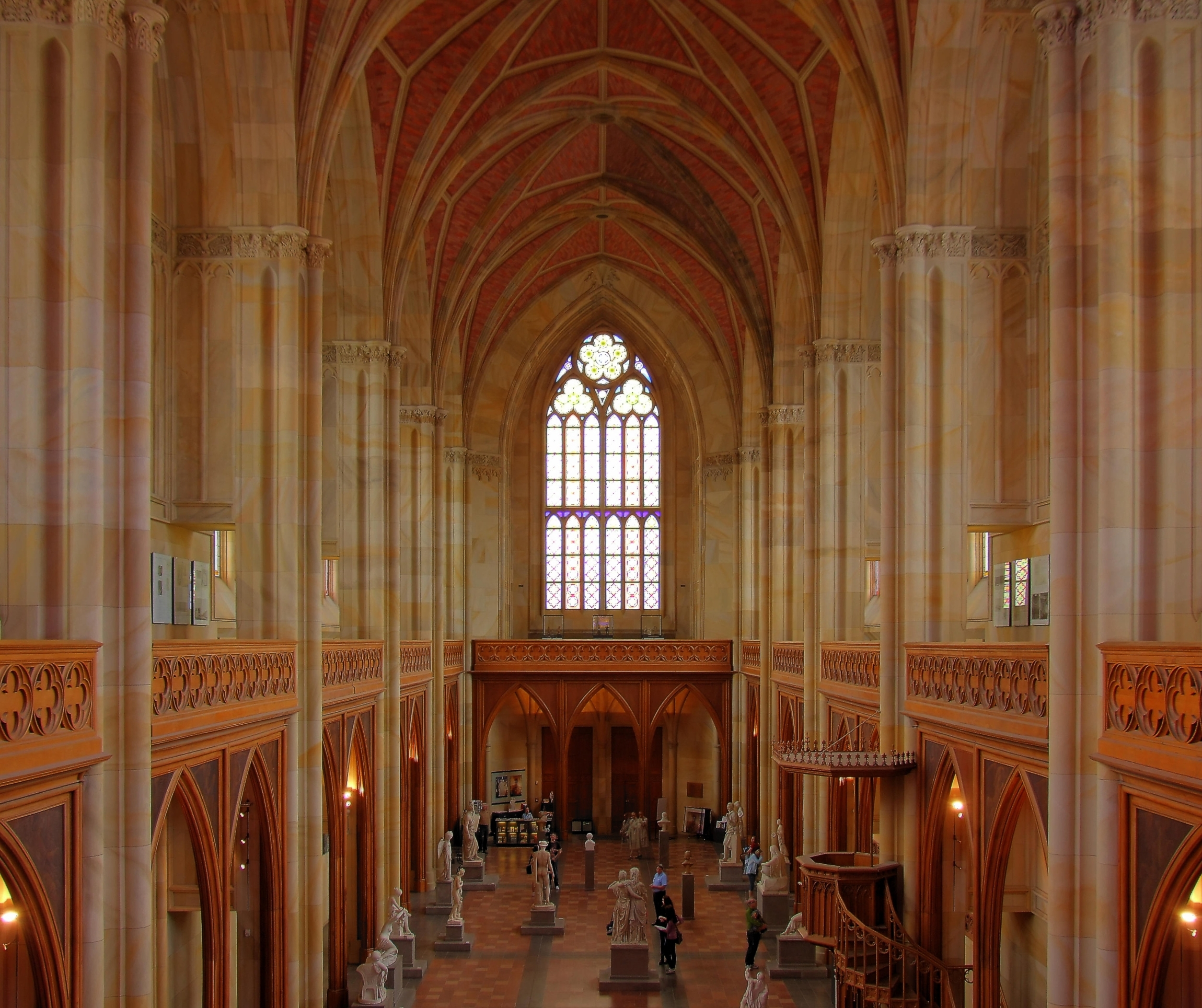 Friedrichswerder Church, Berlin - interior